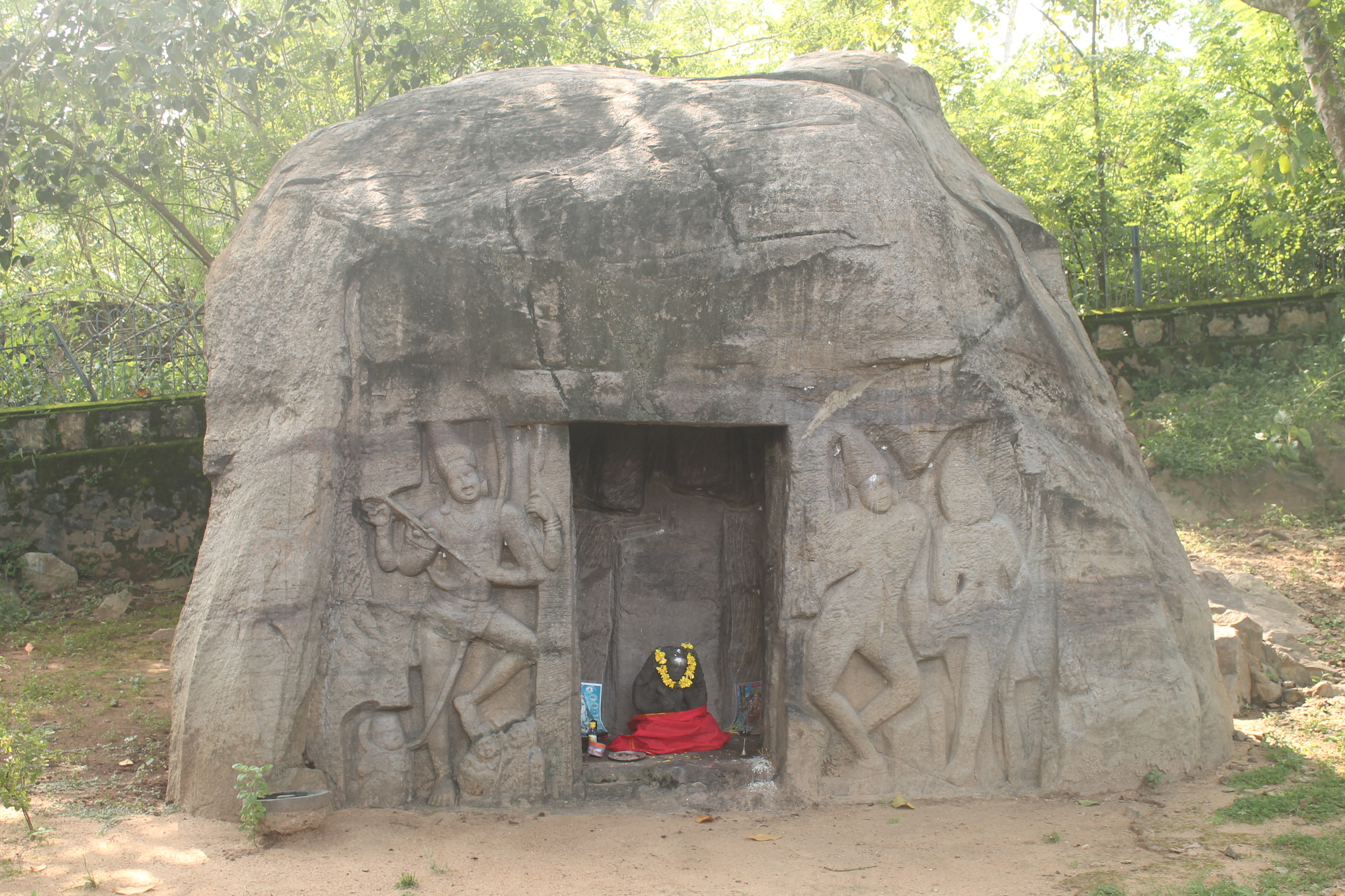 Vizhinjam cave temple external view